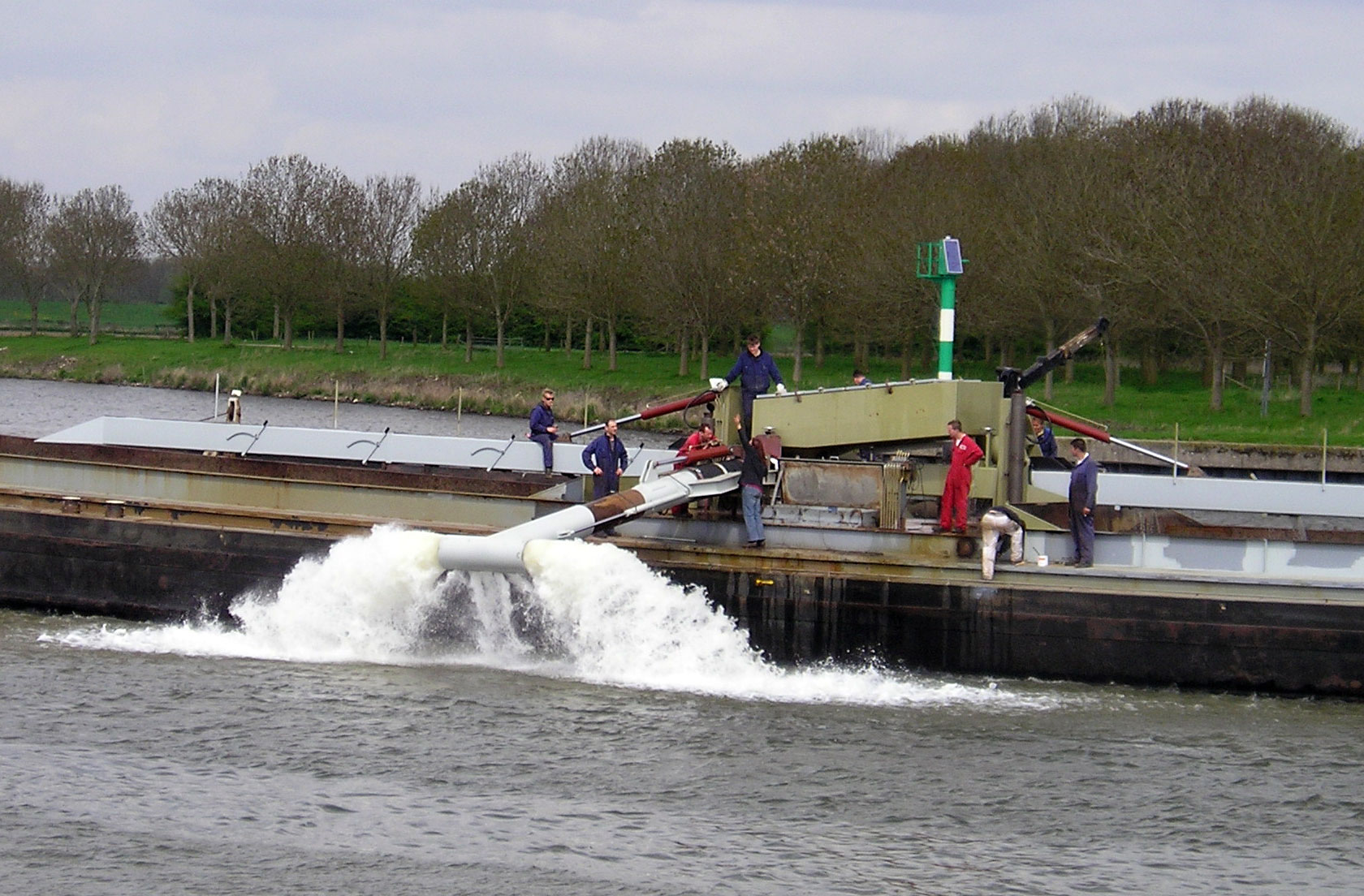 Ship Cilinka at Shipyard Grave, The Netherlands